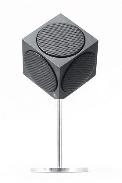 B&O BeoVox 2500 Speakers designed by Jacob Jensen, 1967